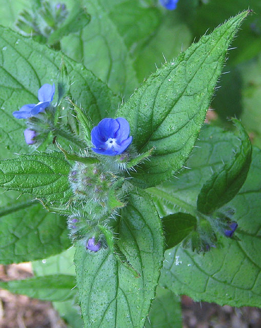 Green name, blue flowers Green alkanet, Pentaglottis sempervirens, growing here by a shady path on the lower, eastern slope of North Hill.